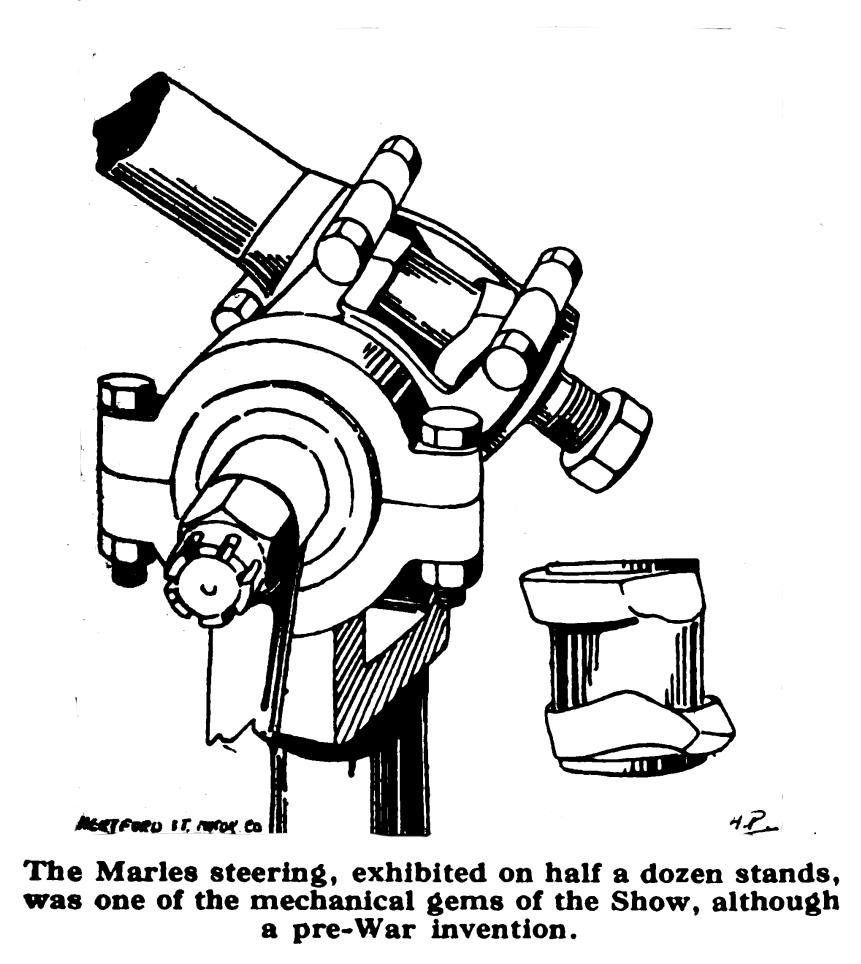 Diagram showing the design of a new type of steering gear for cars